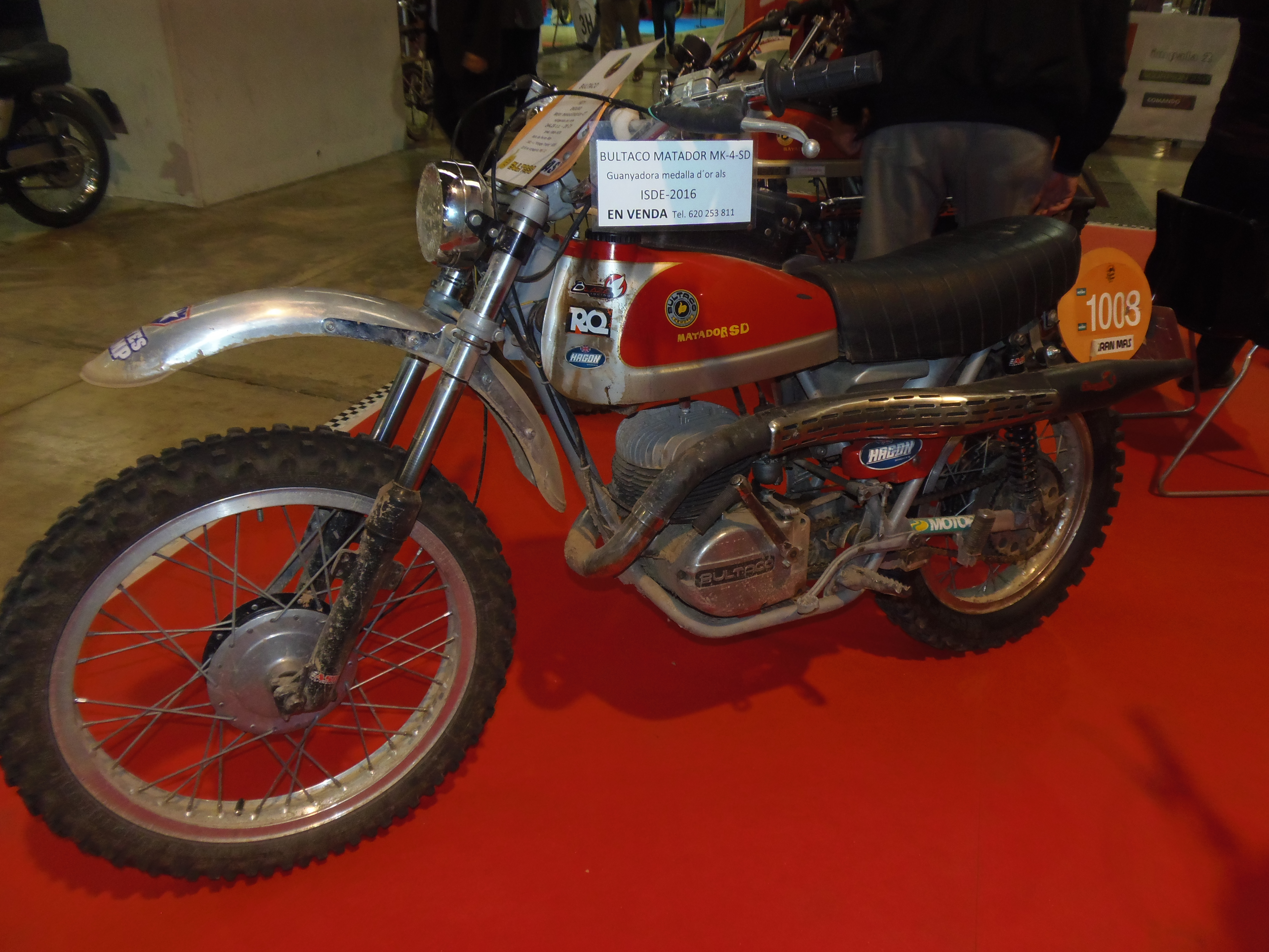 Ferran Mas won a gold medal at 2016 ISDE Vintage Trophy (Navarre) on this Bultaco Matador MK4 SD from 1972